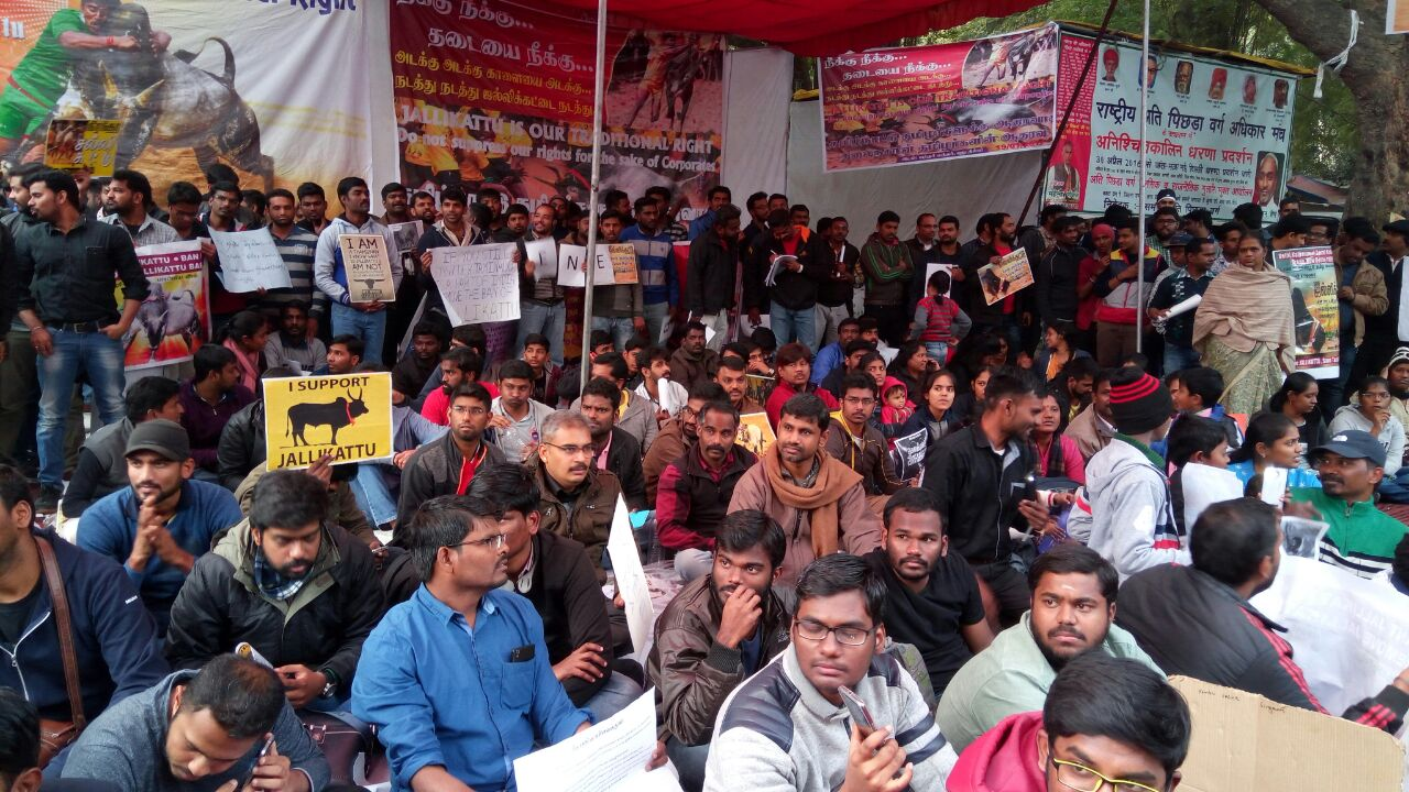 Protests in Jantar Mantar, Delhi against the ban on Jallikattu